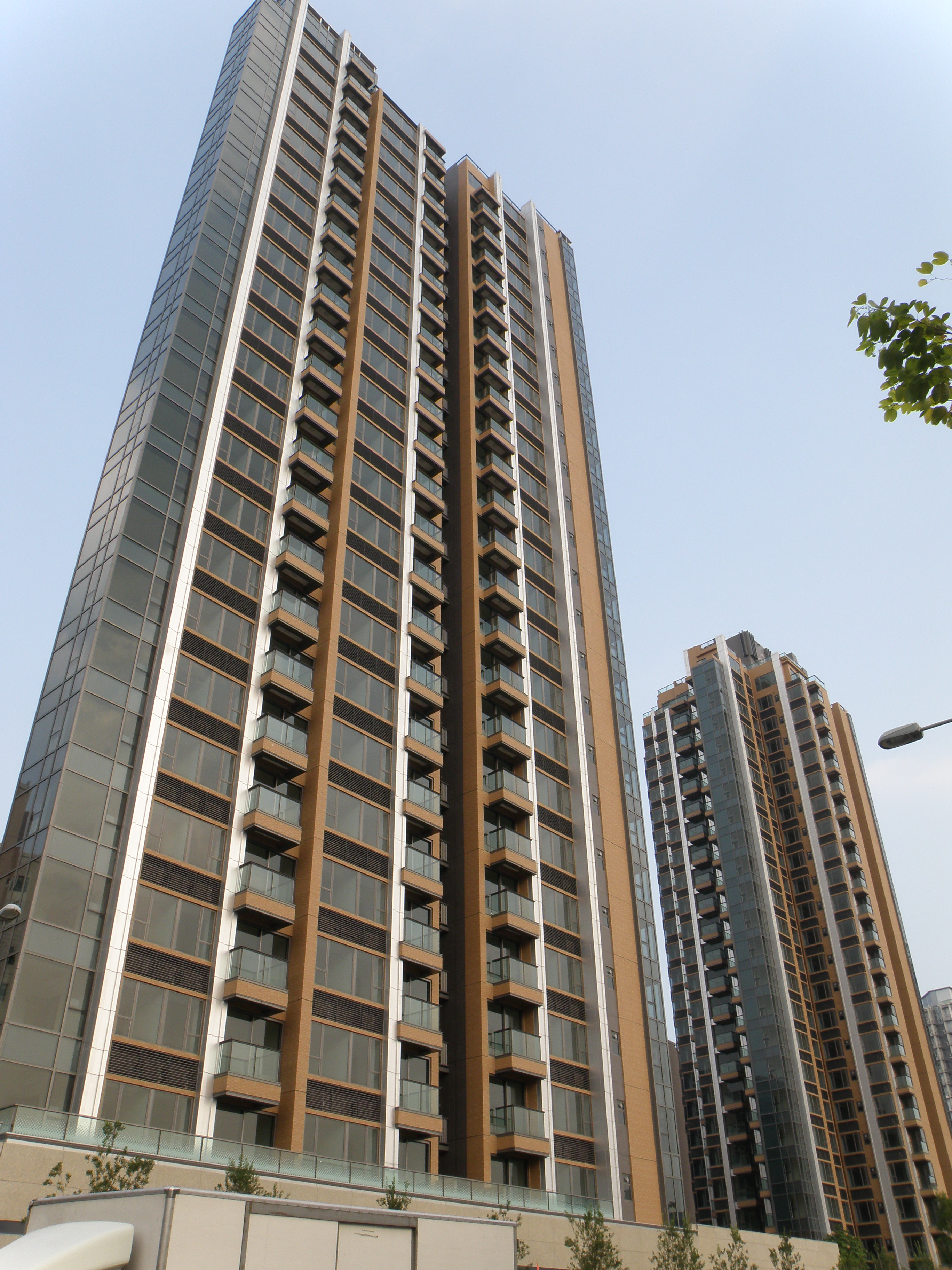 Residence譽88, a private residence in Yuen Long, Hong Kong.